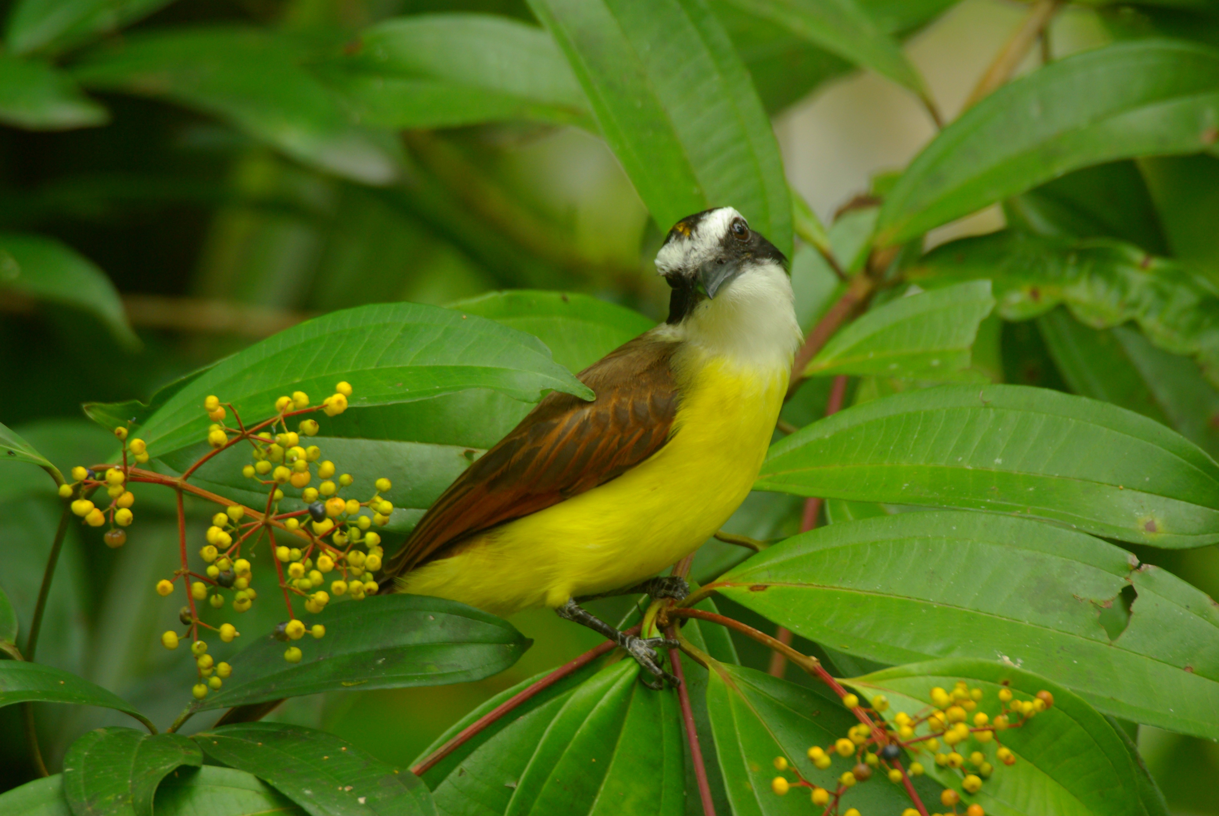 Great Kiskadee (Pitangus sulphuratus). Biological station La Selva, Costa Rica, December 2011